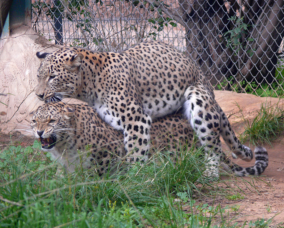 Persian Leopard - Panthera pardus saxicolor, Zoological Center Tel Aviv - Ramat Gan, Israel